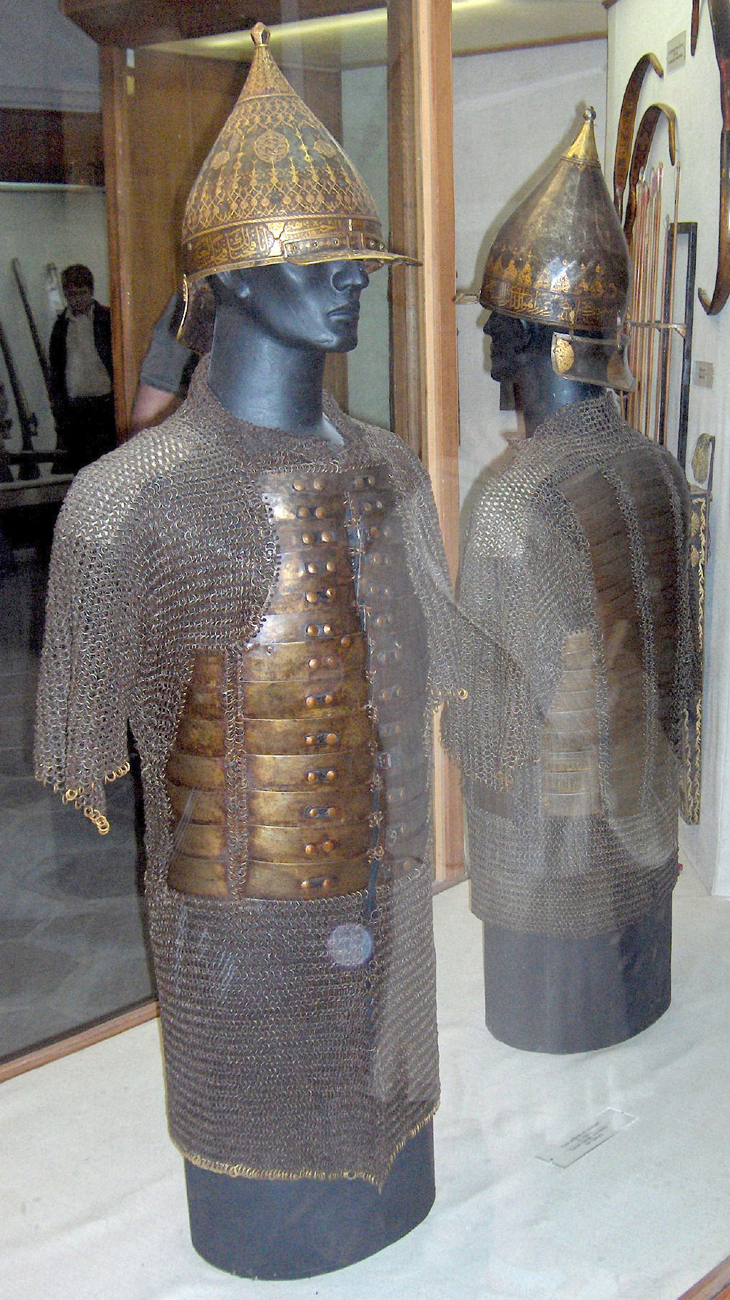 Conical Turkish helmets (15th and early 16th c.) and coat of mail; Topkapı Palace, Istanbul, Turkey.